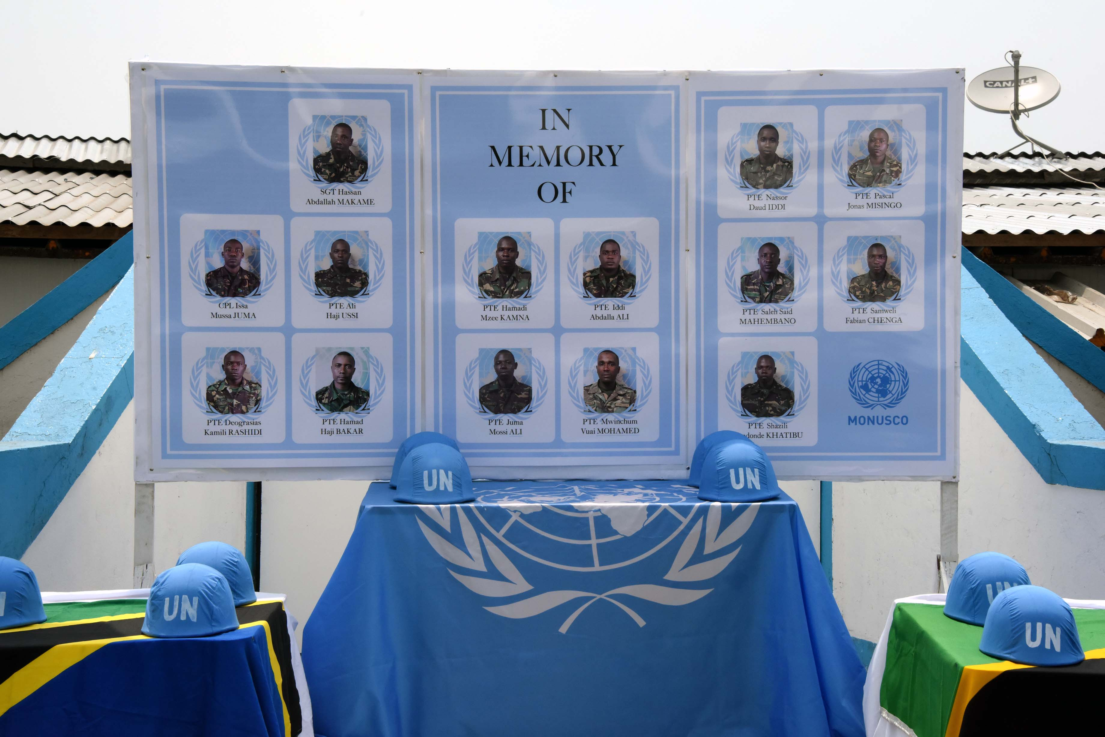 Goma, Nord Kivu, RD Congo – «To honor the memory of those brave soldiers who had come, with passion and enthusiasm, to help their brothers and sisters in the DRC. They have been cowardly attacked by the enemies of peace "quoted the Under-Secretary-General of the United Nations for Peacekeeping Operations, during the ceremony to pay tribute to the peacekeepers killed in the territory of Beni. Photo MONUSCO/Ado Abdou